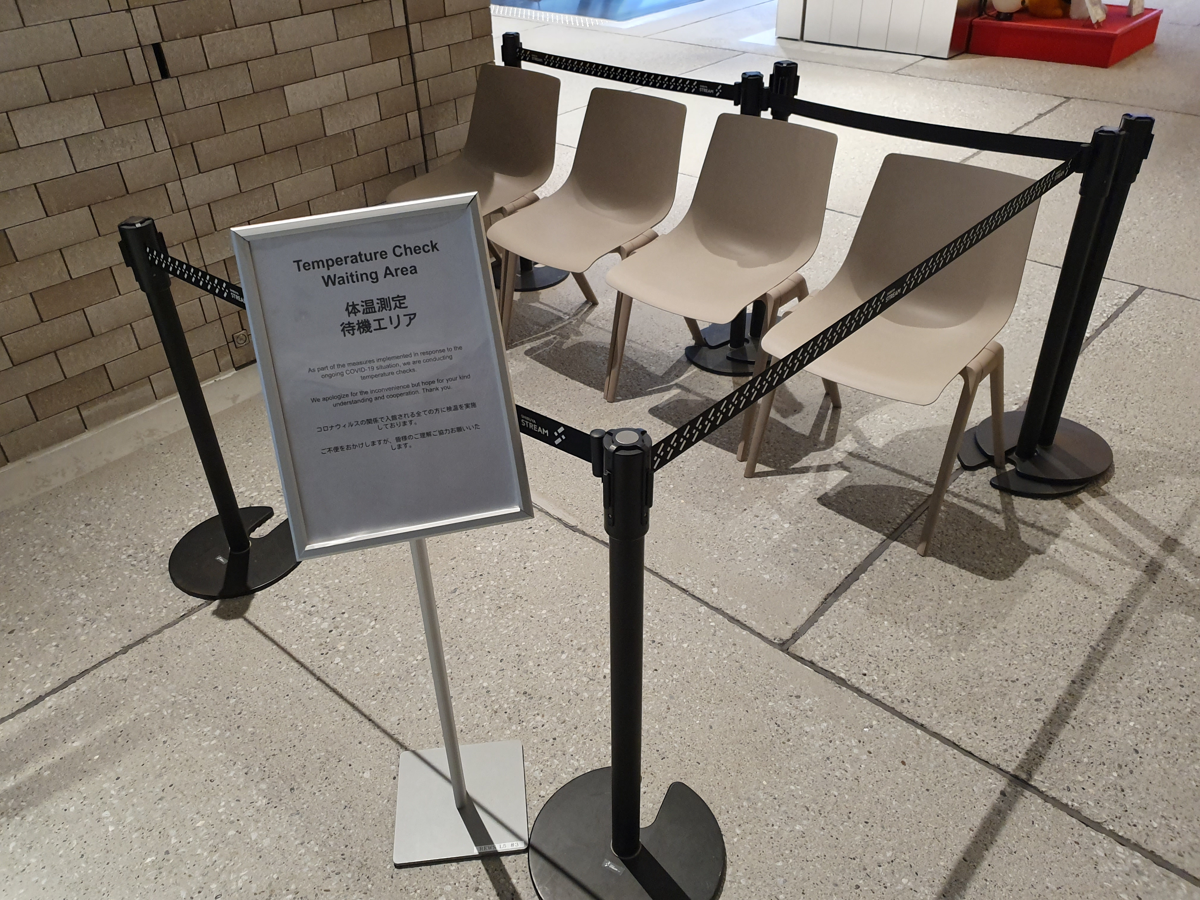 People whose temperature is too high (for instance jogging commuters) when trying to enter the office can cool down a bit here before trying again